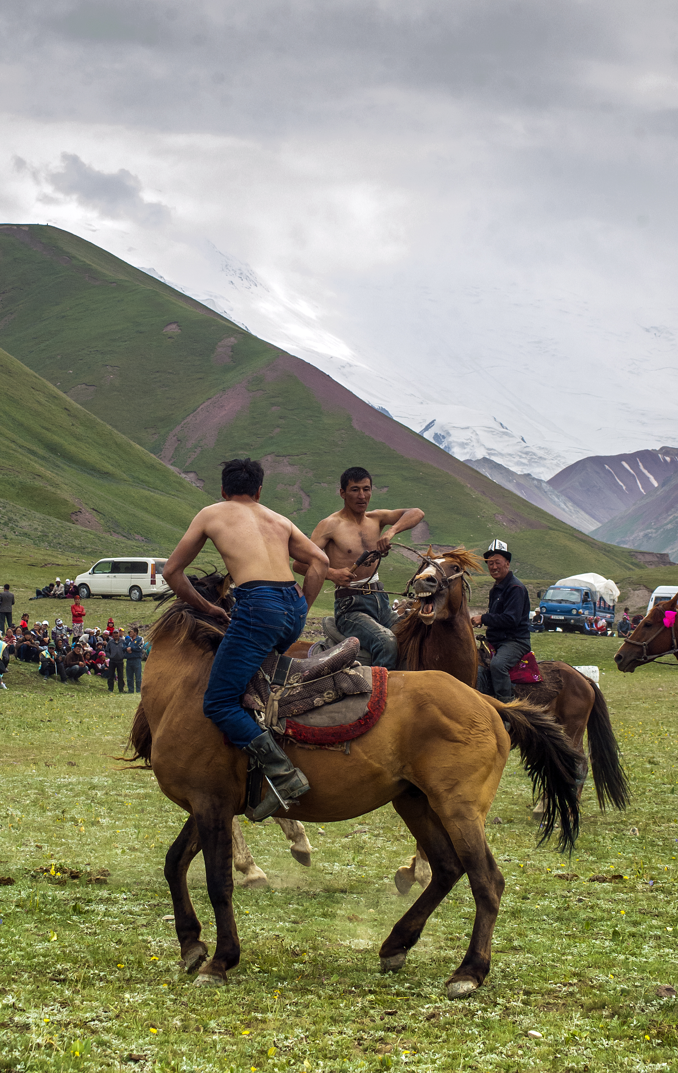 Two horseback wrestlers fight each other during the National Horse Games in Lenin Peak campbase, Kyrgyzstan.